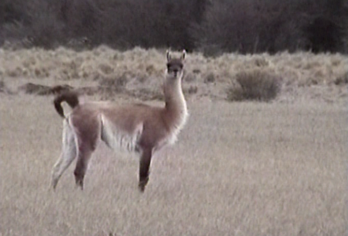 Guanacos (Lama guanicoe guanicoe) in the main island of Tierra del Fuego, Tierra del Fuego Province, Argentina.